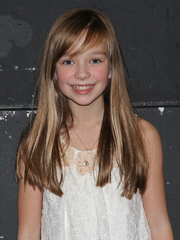 Talbot backstage at "Young Voices"